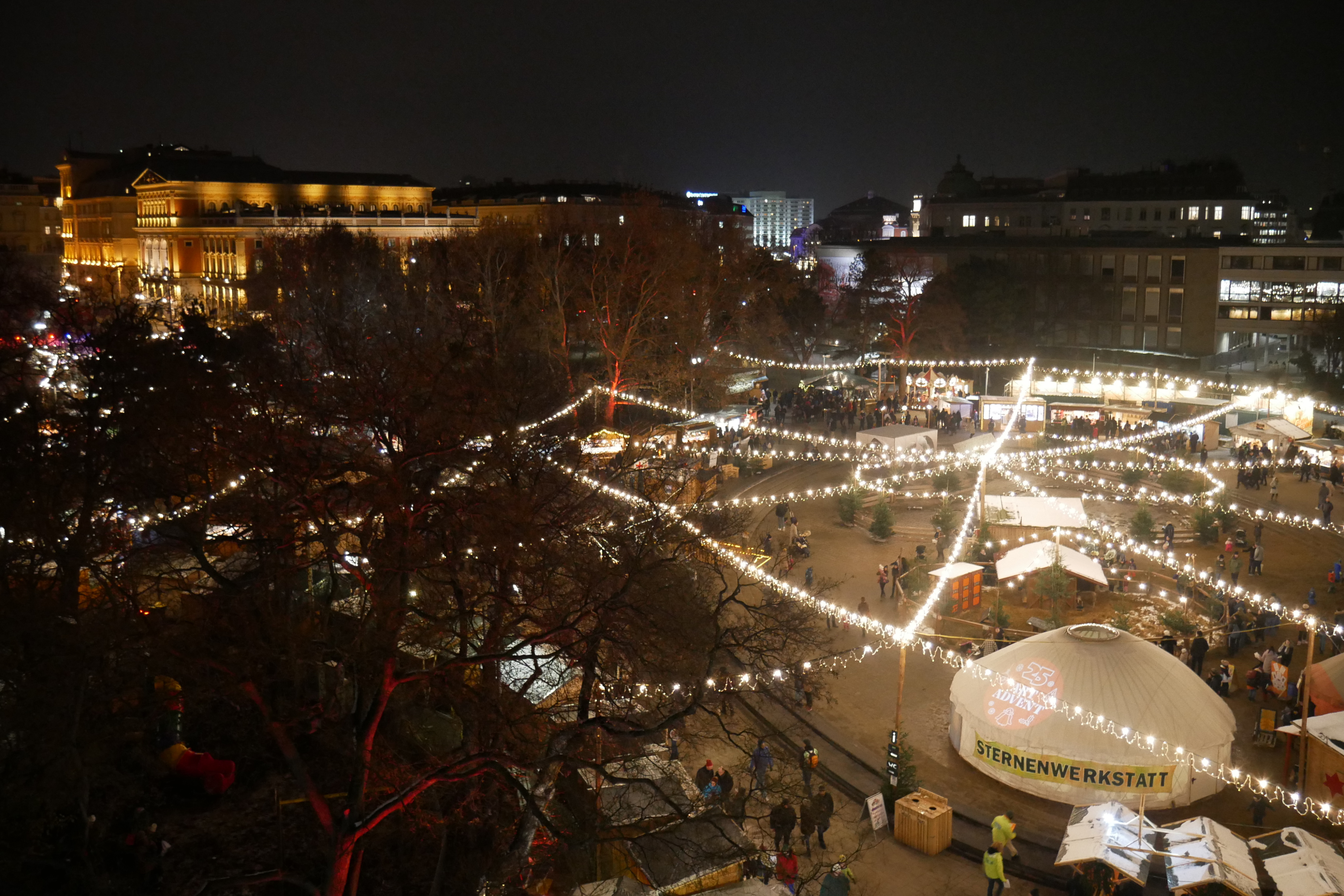 Christmas market on the Karlsplatz in Vienna.